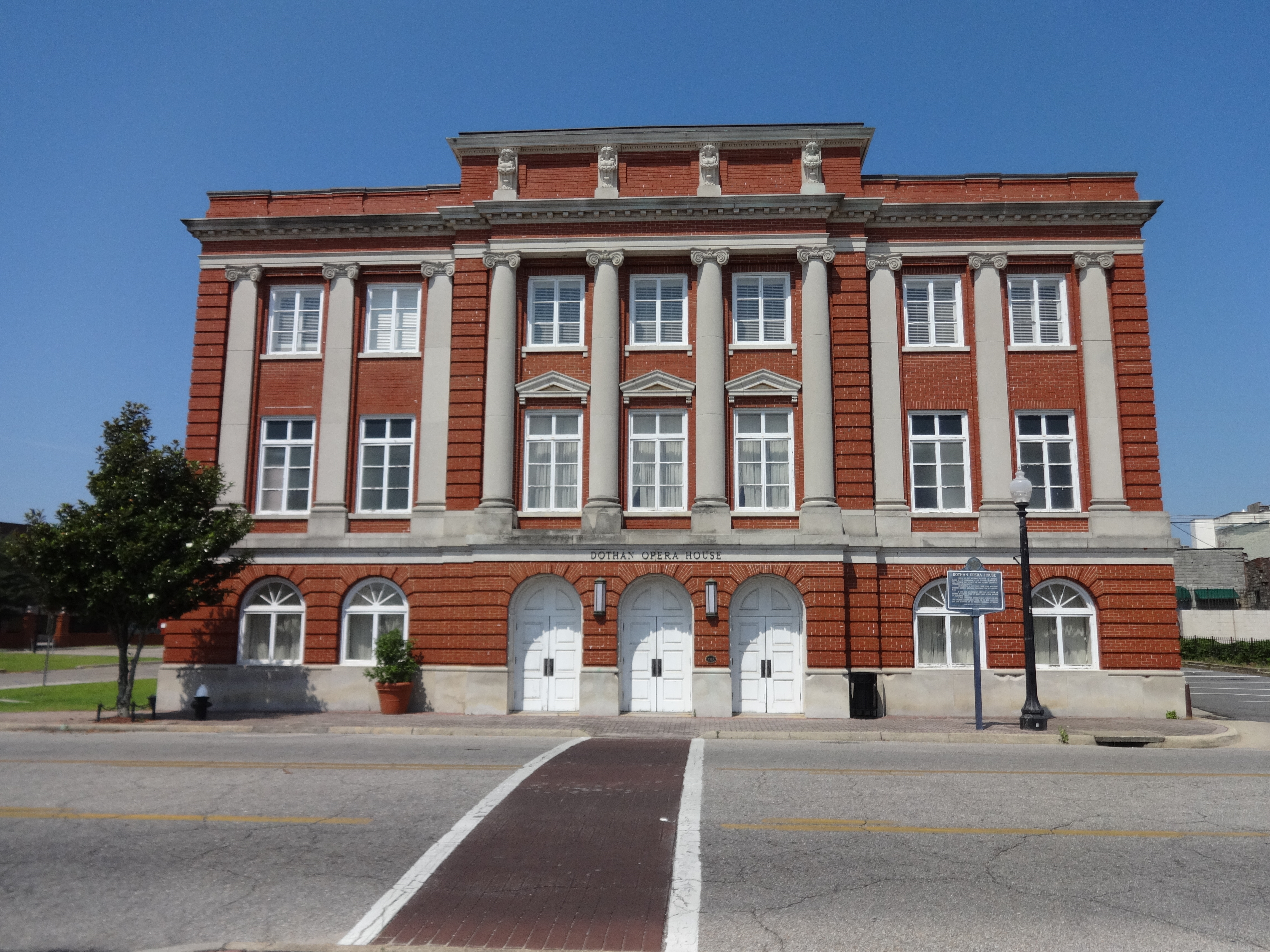 Dothan, Houston County, Alabama